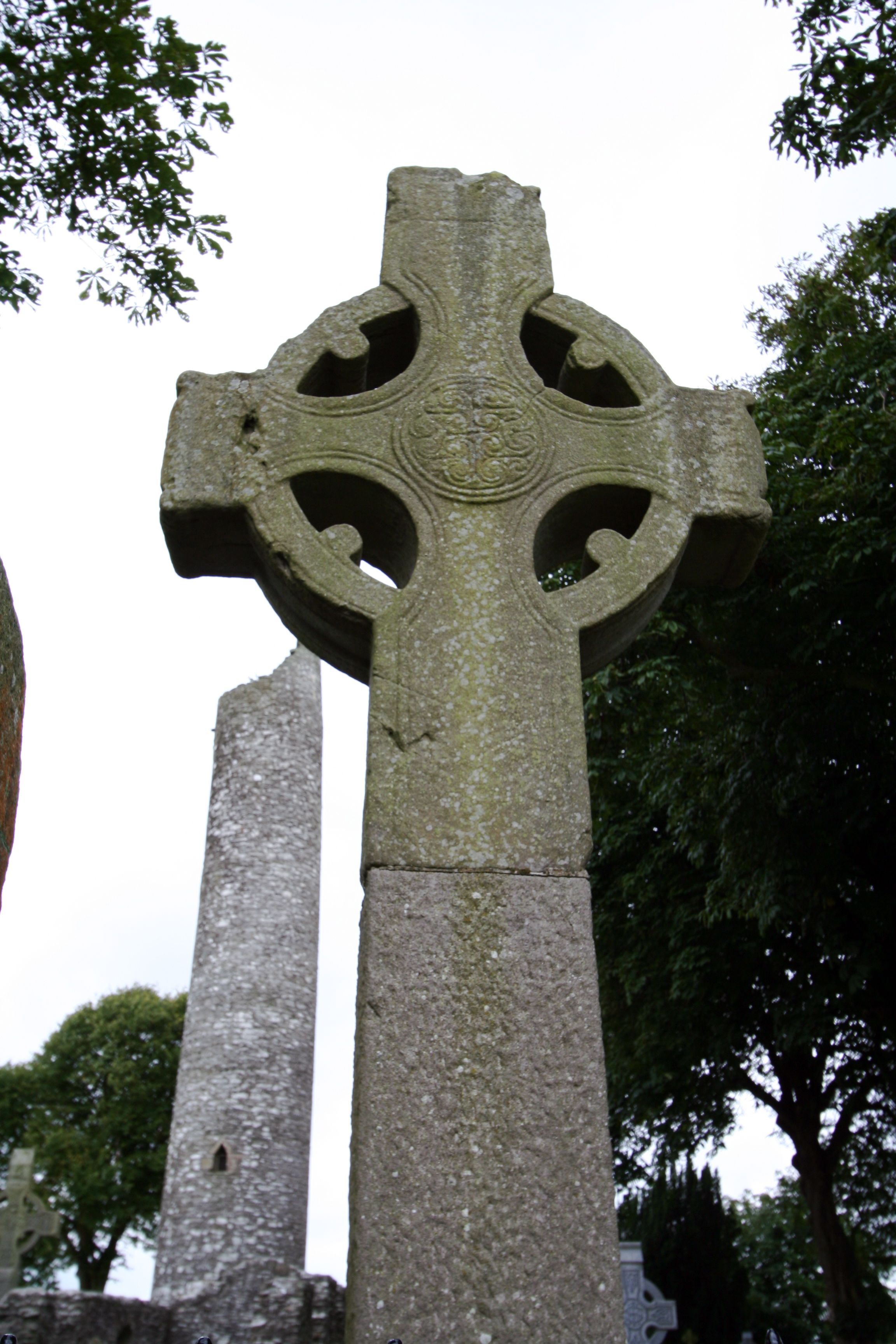 Monasterboice Tower and celtic crossMonasterboice 17